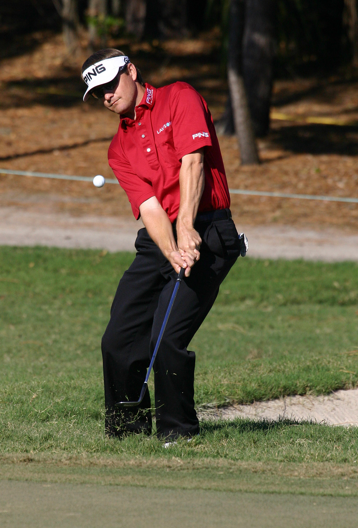 Heath Slocum at the 2006 Chrysler Championship PGA tournament, Palm Harbor, Florida, practice round.